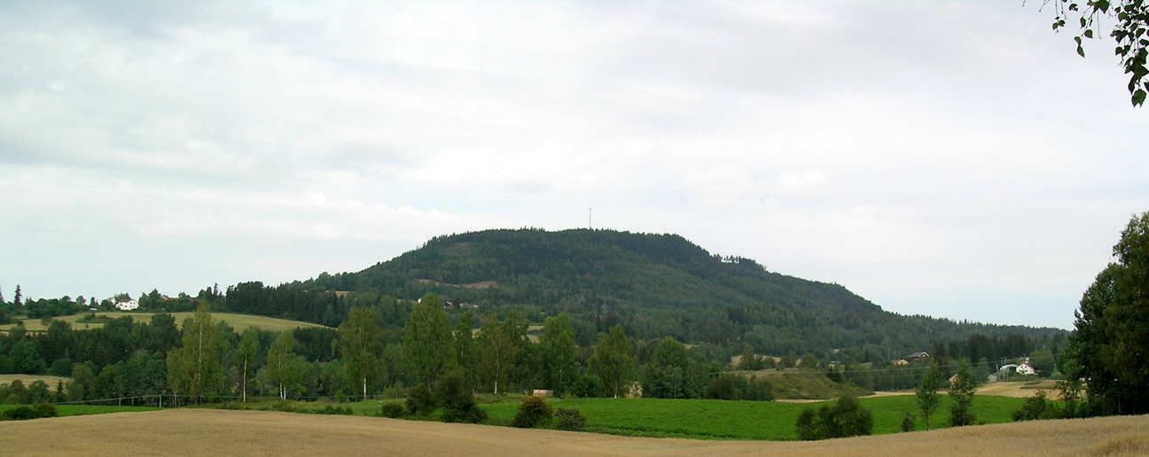 Brandbukampen, Gran, Oppland, Norway.